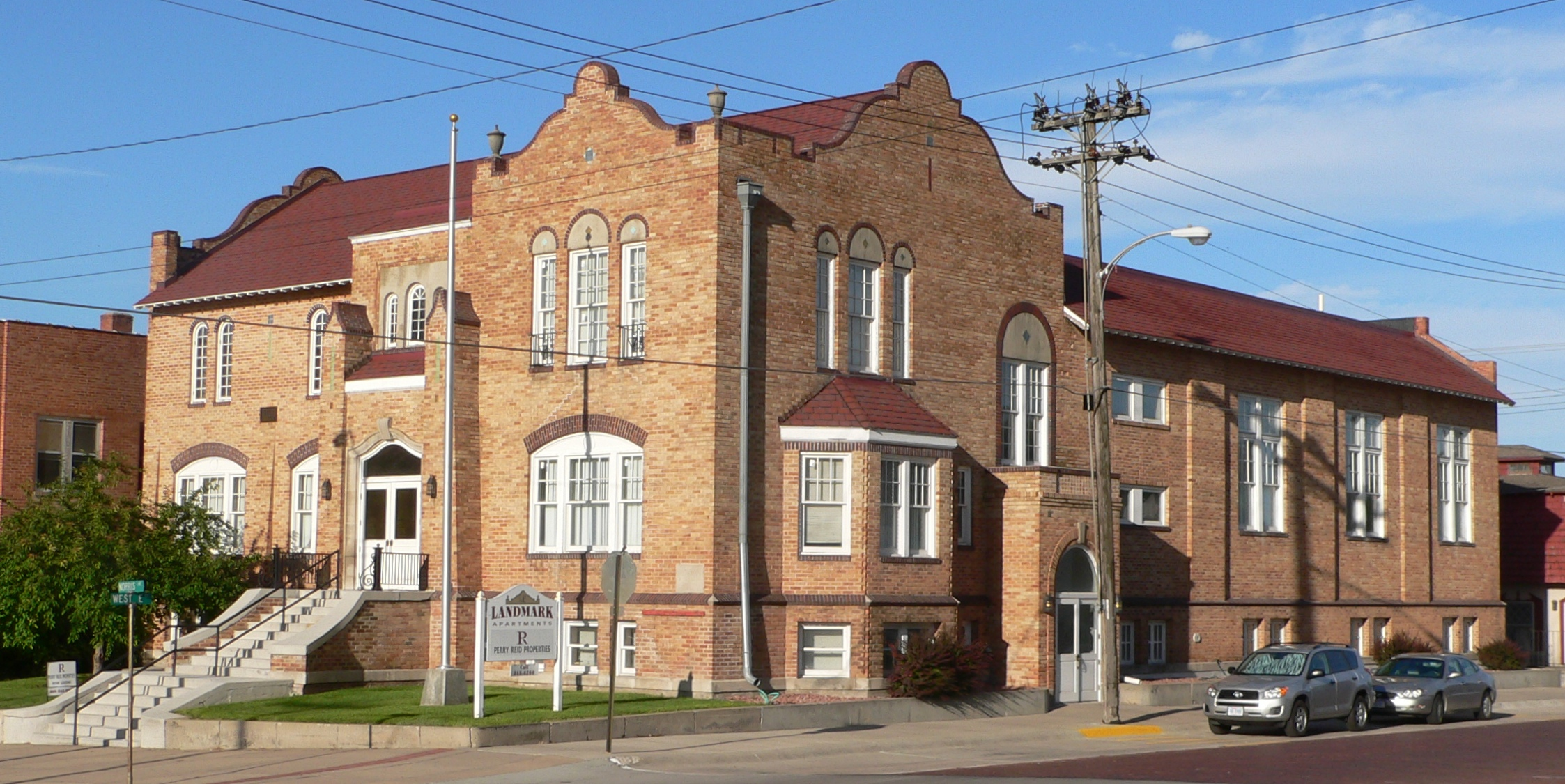 McCook YMCA building in McCook, Nebraska; seen from the northeast. The Mission Revival building was constructed in 1925, and is listed in the National Register of Historic Places. It is now used as an apartment building.